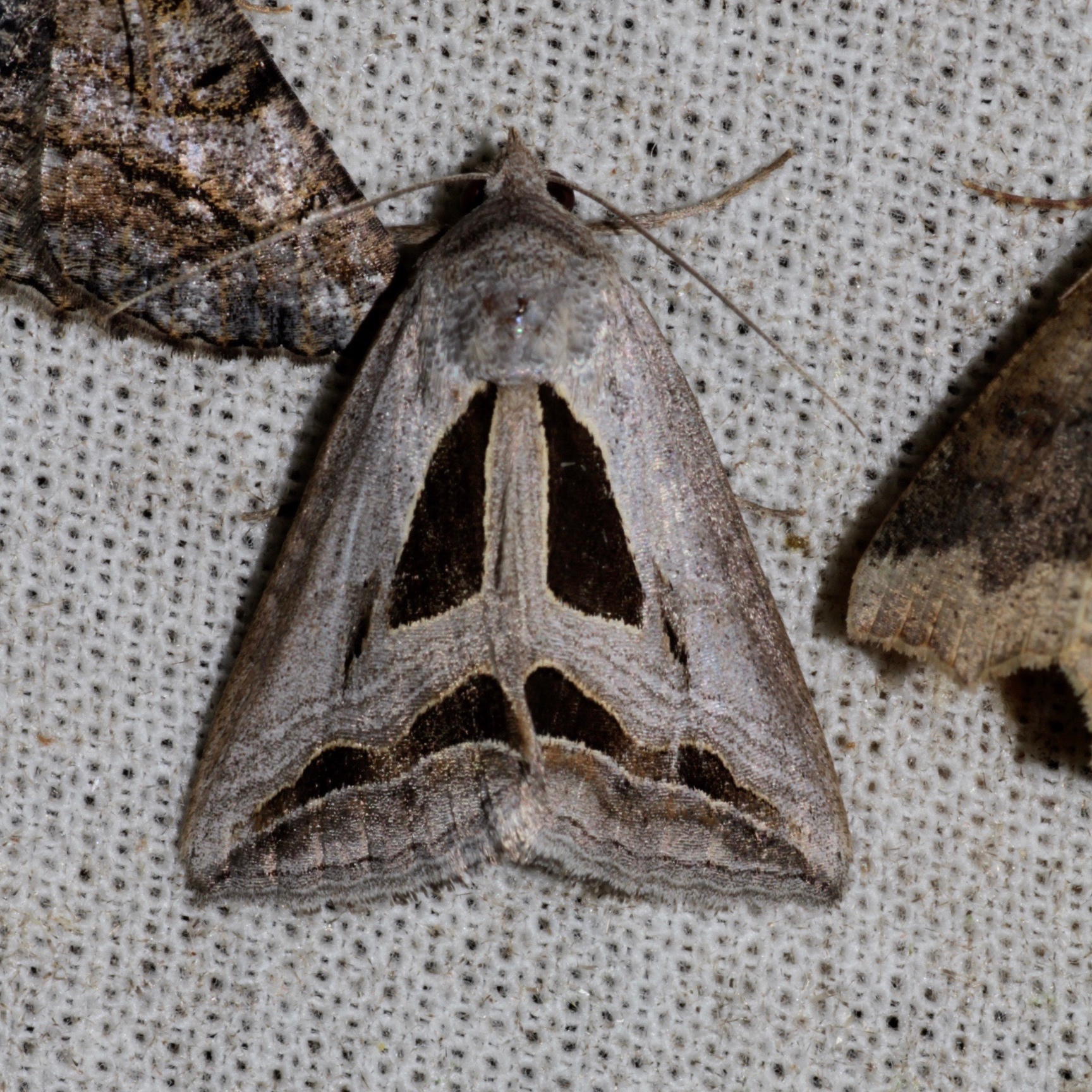 South Africa, Kwazulu Natal, Mhlopeni Nature Reserve.